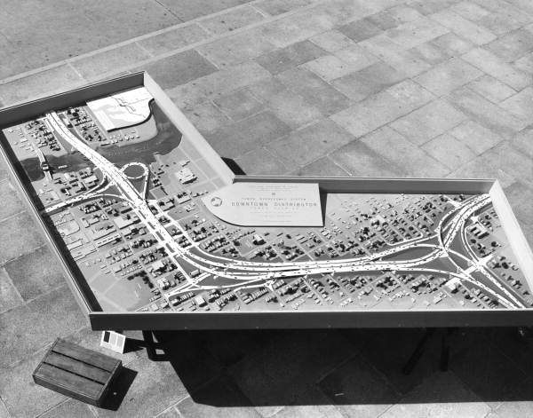 Model of the planned Downtown Distributor along the north side of downtown Tampa, Florida. The intersection on the right is Malfunction Junction and the Hillsborough River can be seen in the upper left. At the time, this segment of highway was part of Interstate 4 (with Interstate 75 beginning at the right junction and going to the upper right). Today this segment of highway is part of Interstate 275, with I-4 beginning at the right junction and running to the lower right.